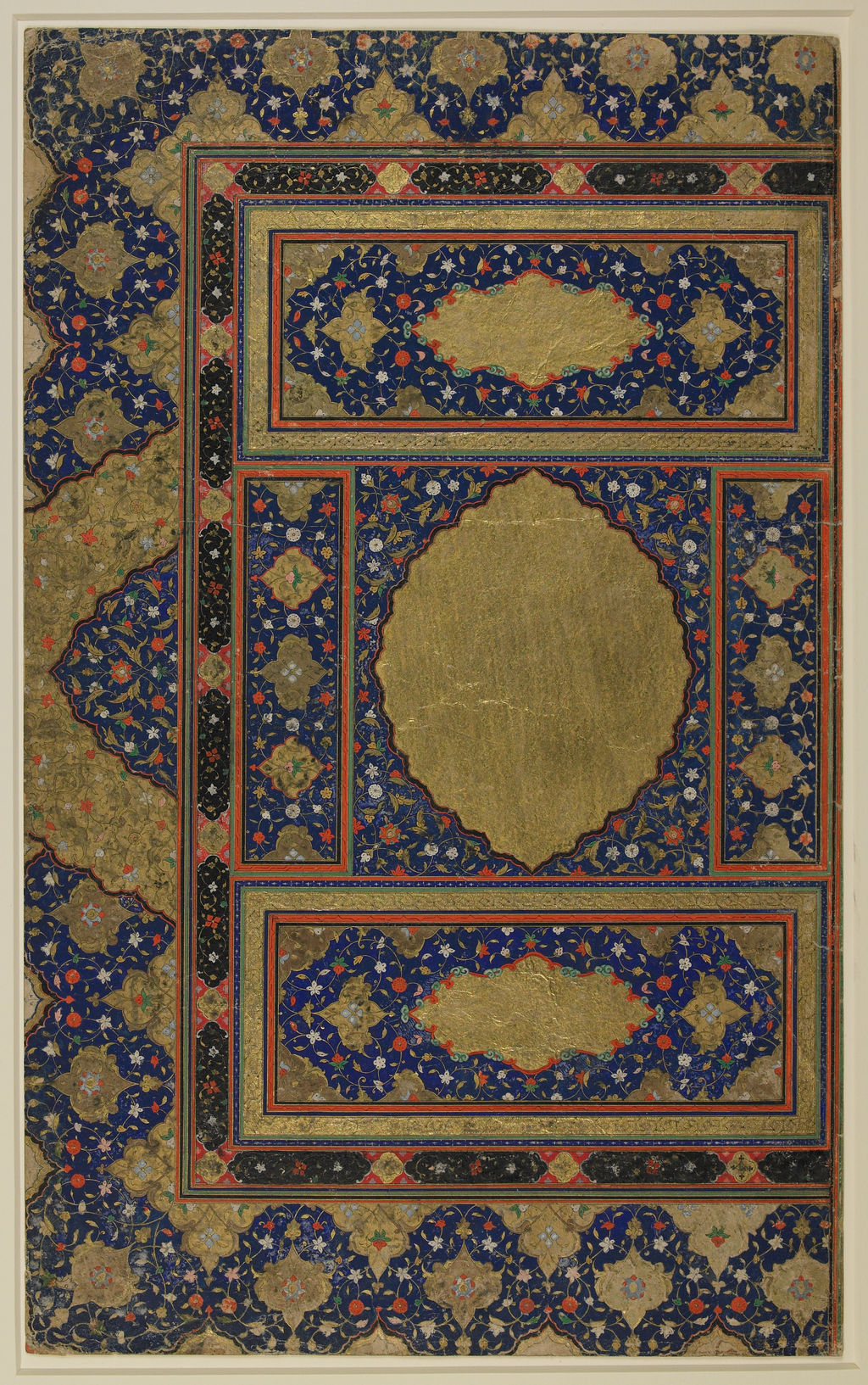 This illuminated frontispiece is one of two pages that would have formed the opening double-page composition of a manuscript. It is possible that it belonged to a Qur'an. The title would have appeared in the top and bottom rectangular panels. The central medallion may have contained the beginning of the first chapter of the Qur'an, al-Fatihah (The opening). It also may have served as a space for the work’s dedication to a patron or blessings upon its owner. The illumination is typical of Qur'an frontispieces made in Herat (present-day Afghanistan) about 1500–1550. The central gold medallion and rectangular panels are set in polychrome scrolls with white and orange flowers on a blue background. These panels are framed by an outer border composed of black cartouches alternating with gold quatrefoils on a red background. The remaining outer space is decorated with overlapping blue and gold lappets. Illuminators during the first half of the 16th century experimented with the double-page illuminated frontispiece. The artist Shaykhzadah began using black backgrounds and invented new arabesque or scrollwork motifs. These motifs not only appeared in frontispieces but were used as architectural ornamentation in manuscript paintings. Such decorative connections highlight the close relationship between illuminators and painters, who collaborated in the production of illuminated and illustrated manuscripts. Arabic calligraphy; Illuminations; Islamic calligraphy; Islamic manuscripts